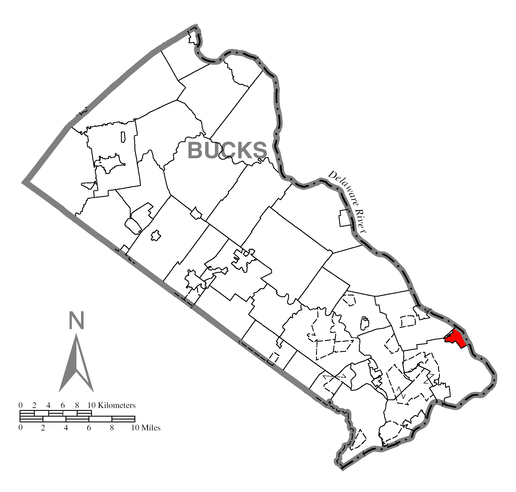 A map of Bucks County showing Morrisville, Pennsylvania (alternate) highlighted on the map.